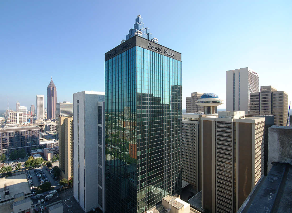 Coastal States, Atlanta